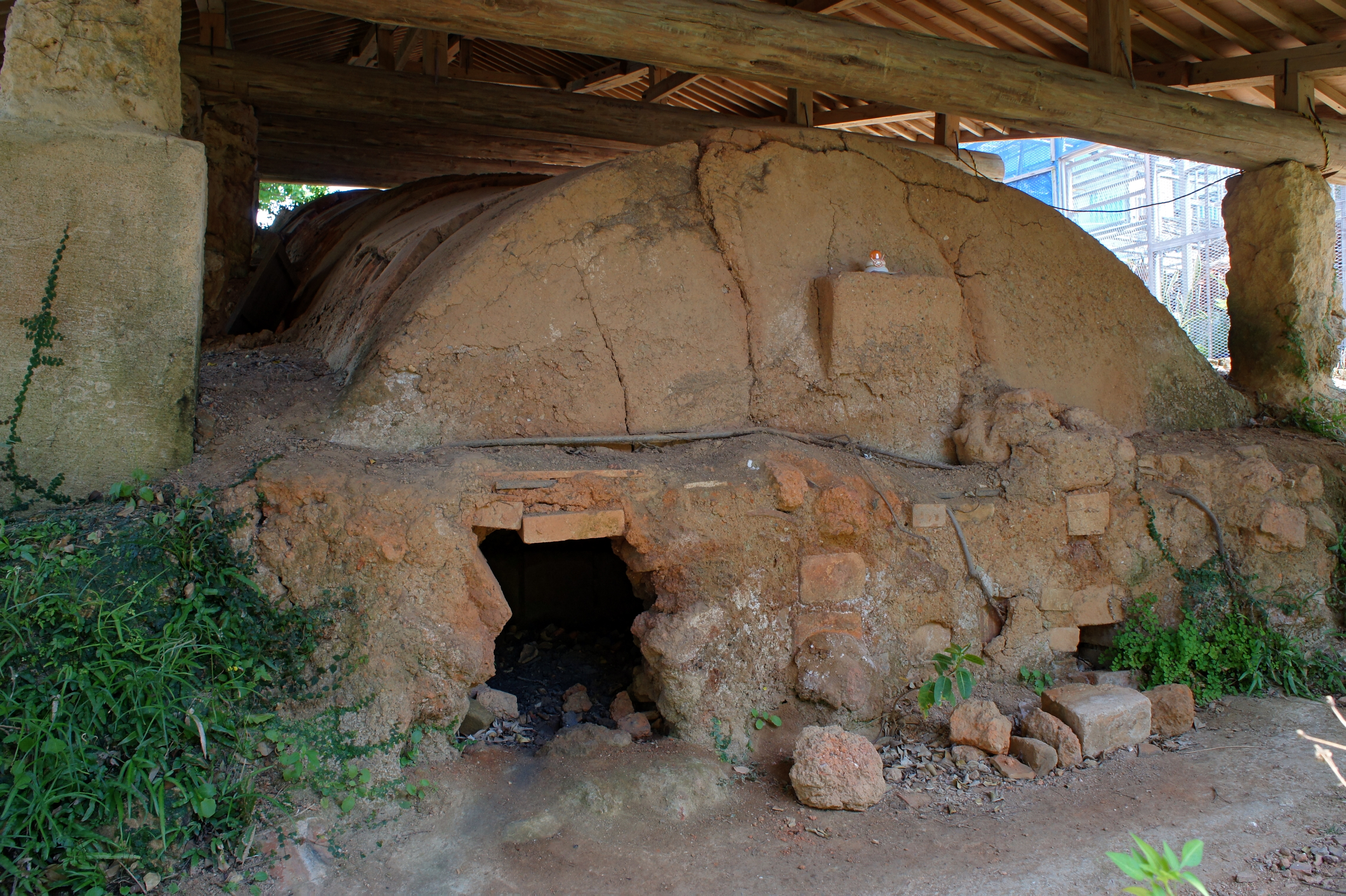 Tsuboya, Naha, Okinawa prefecture, Japan